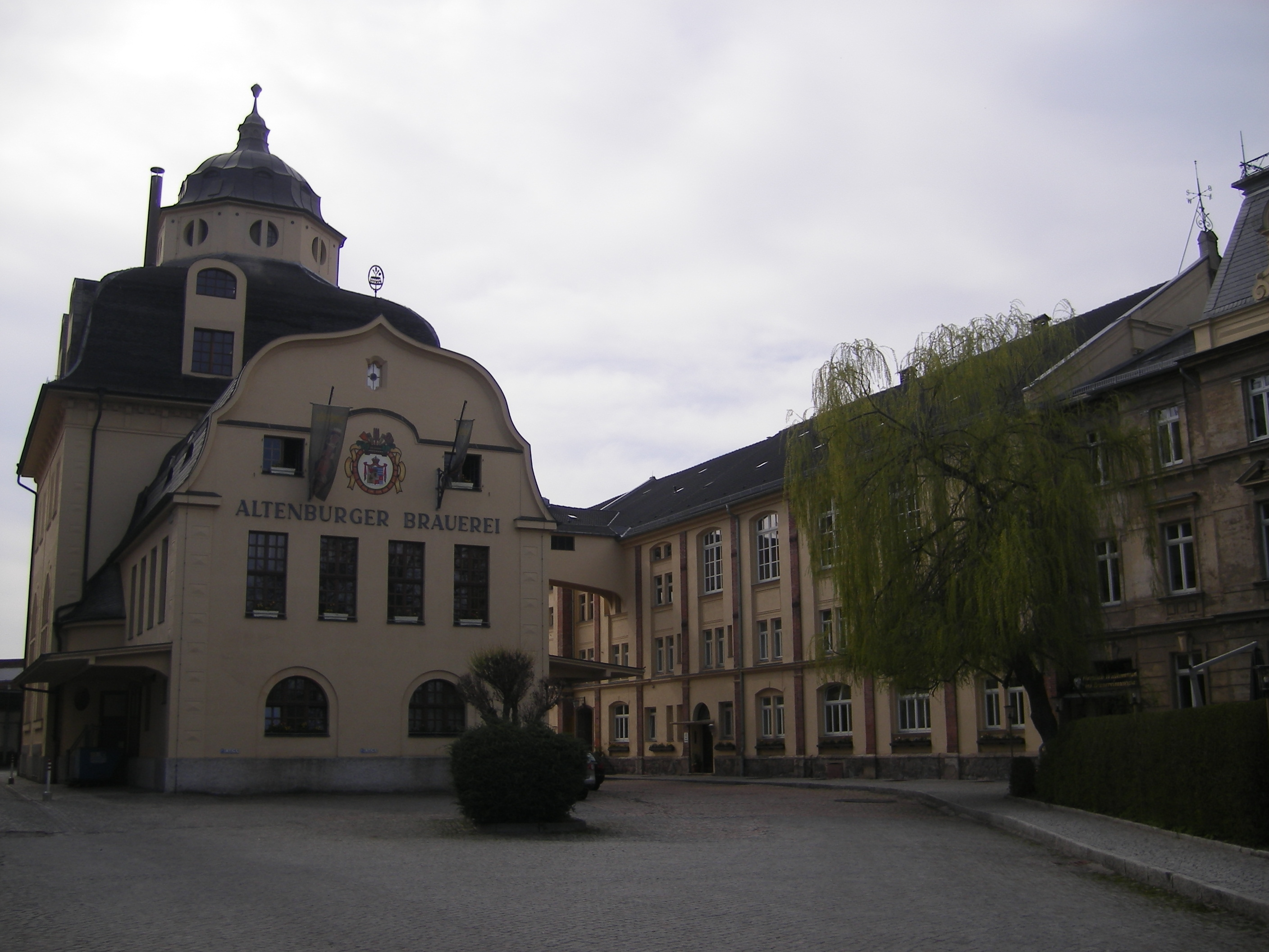 Brewery in Altenburg/Thuringia (Germany)